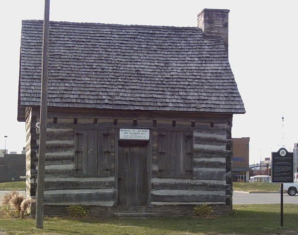 This cabin, actually transplanted from Washington County, Iowa, is preserved as a monument to commemorate Fort Des Moines No. 2 and the birth of the city of Des Moines, Iowa. The cabin is located north of Principal Park, southwest of MLK/Elm and First/Water Streets.